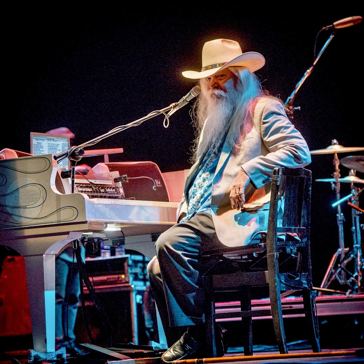 Leon Russell performing at the Egg in Albany, New York on February 28, 2016